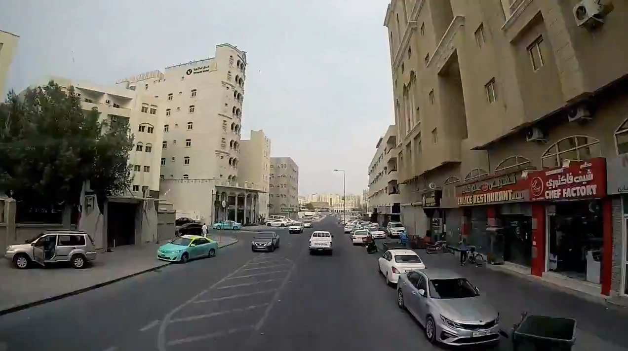 Victoria Hotel (left) at the intersection of Qatari Bin Al Fujaah Street and Abu Sedaira Street in the Fereej Bin Mahmoud district of Doha, Qatar.